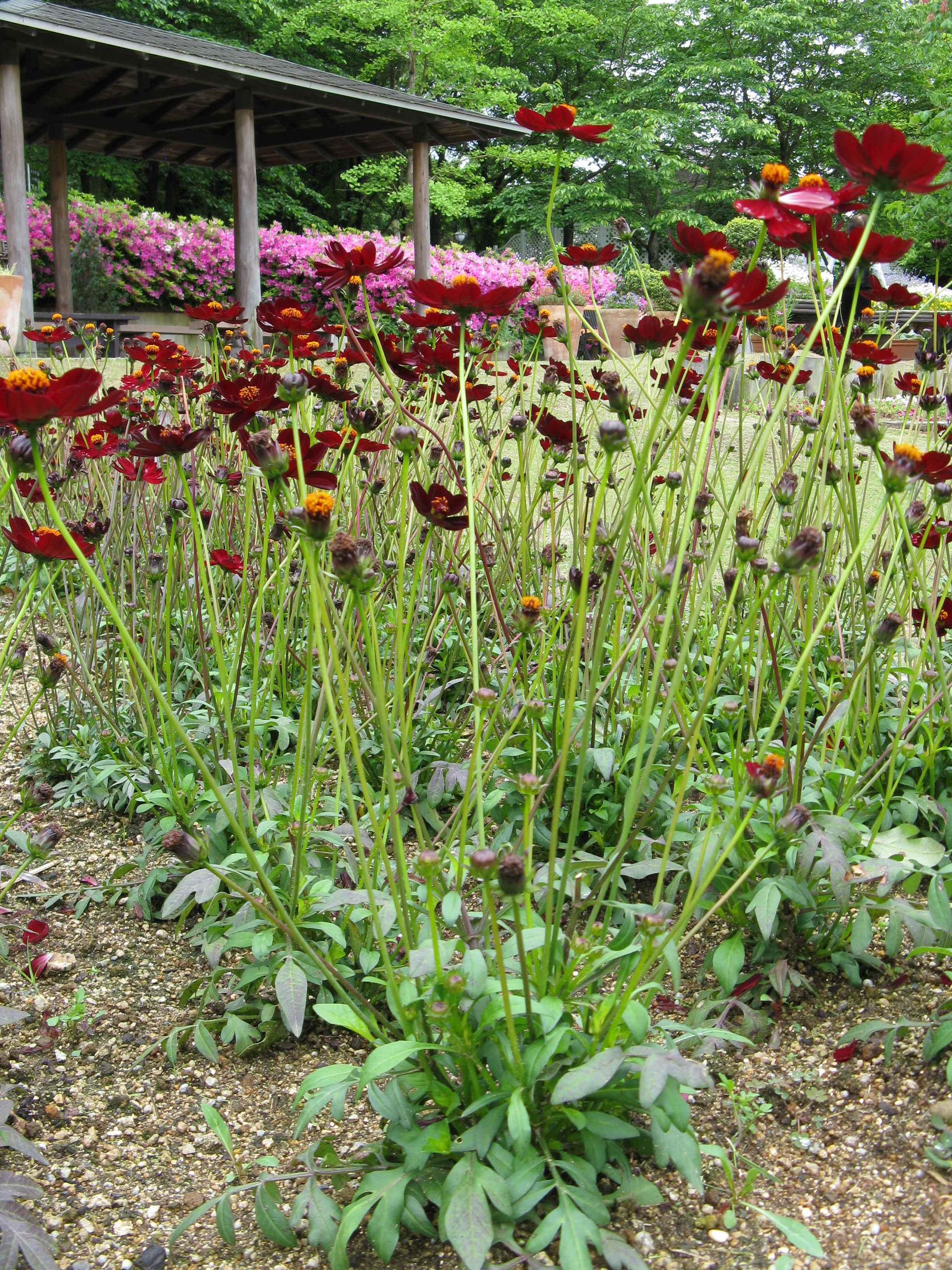 Cosmos hybrida 'Strawberry Chocolate' in a garden in Osaka, Japan – Cosmos atrosanguineus × Cosmos ???